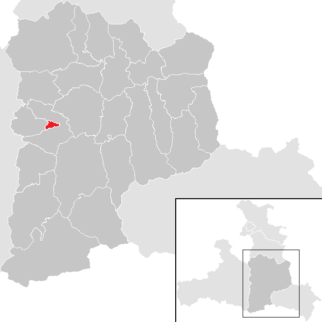 District Sankt Johann im Pongau